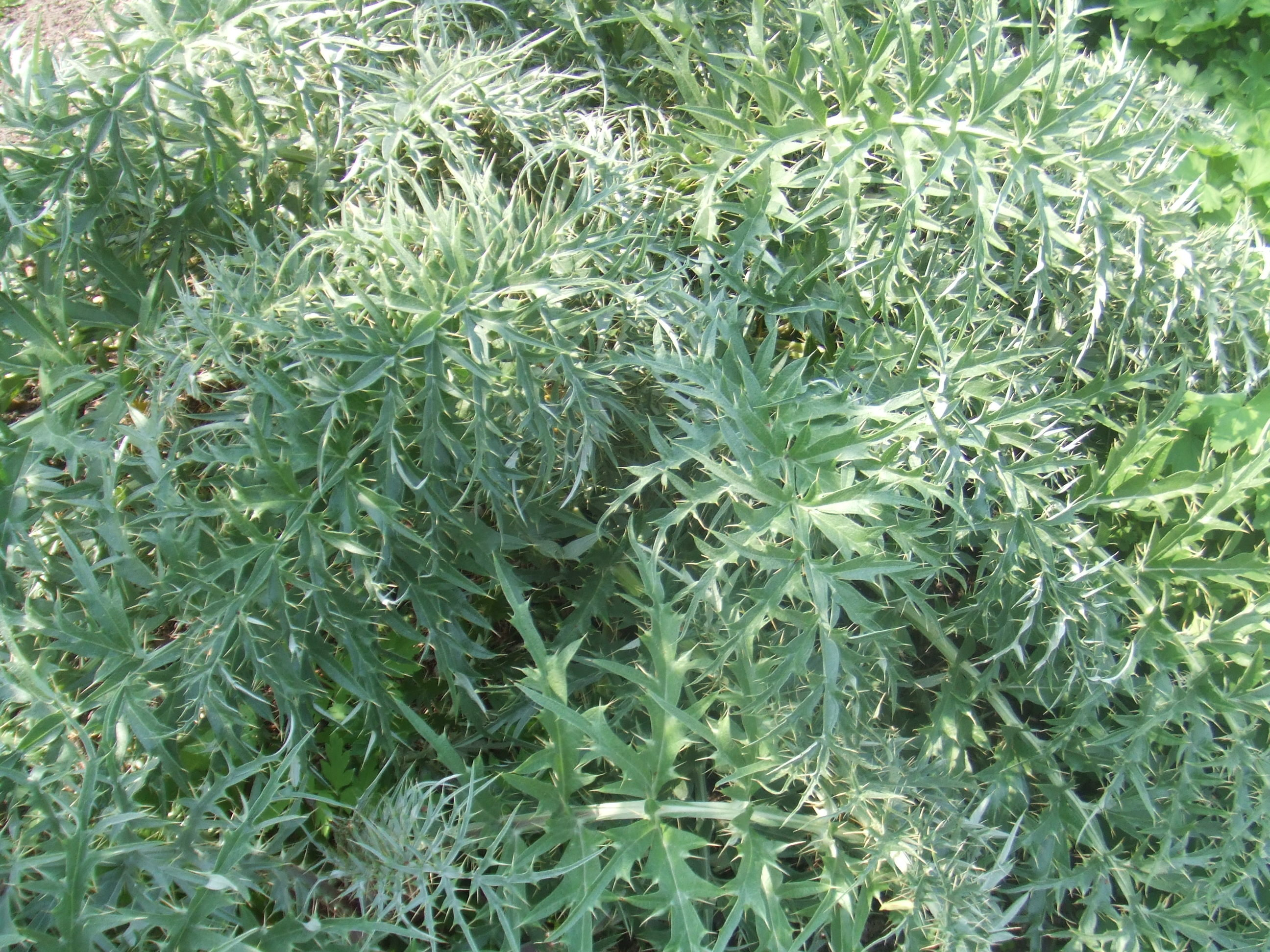 Cynara cardunculus, picture taken at the Botanische tuin TU Delft in Delft, The Netherlands